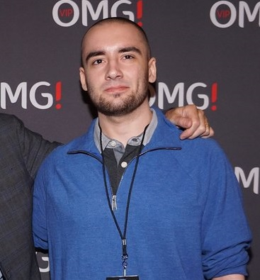 Jack Peterson in May 2018